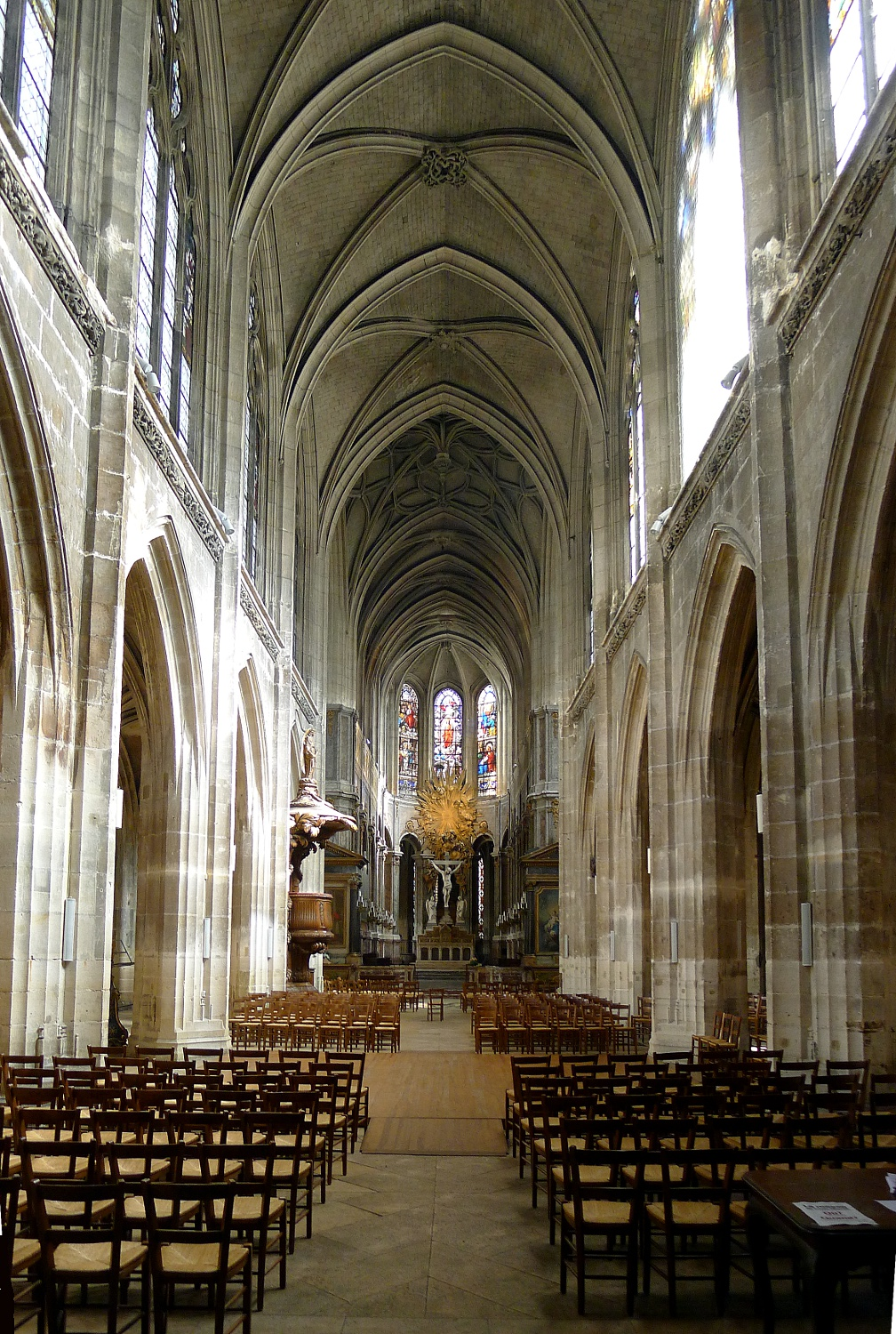 Saint-Merri church - Paris